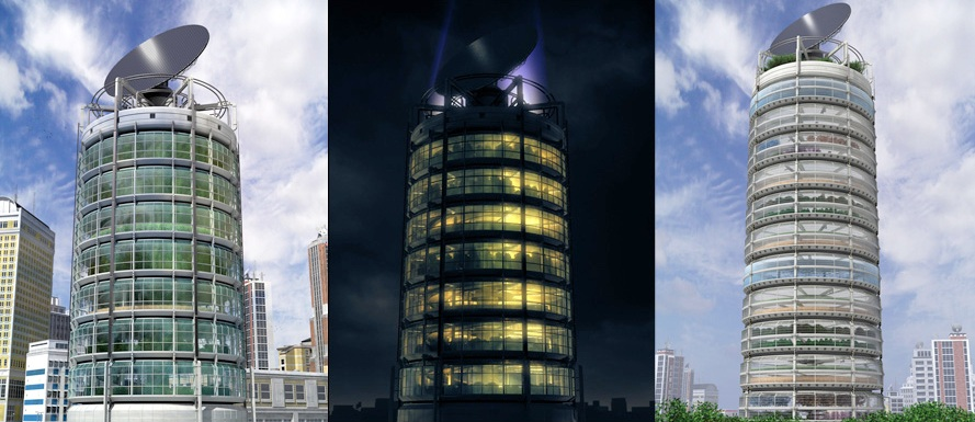 Designs by Chris Jacobs and Rolf Mohr. 3d Modeling and rendering, Dean Fowler